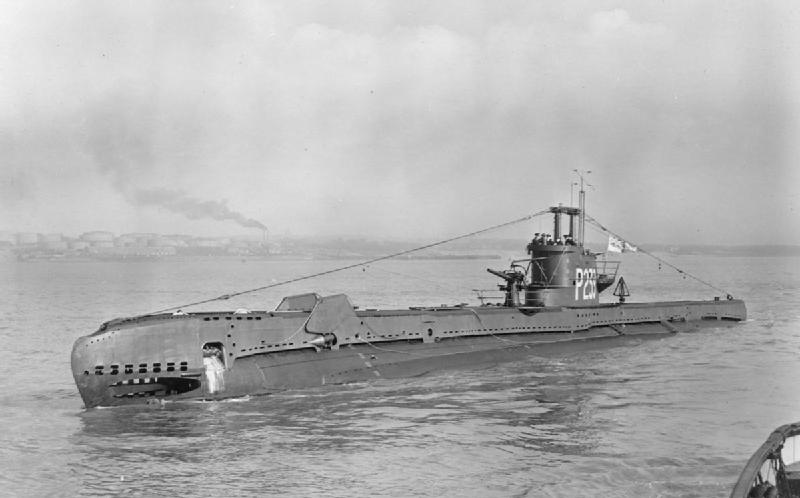 British S class submarine HMSM SURF underway.